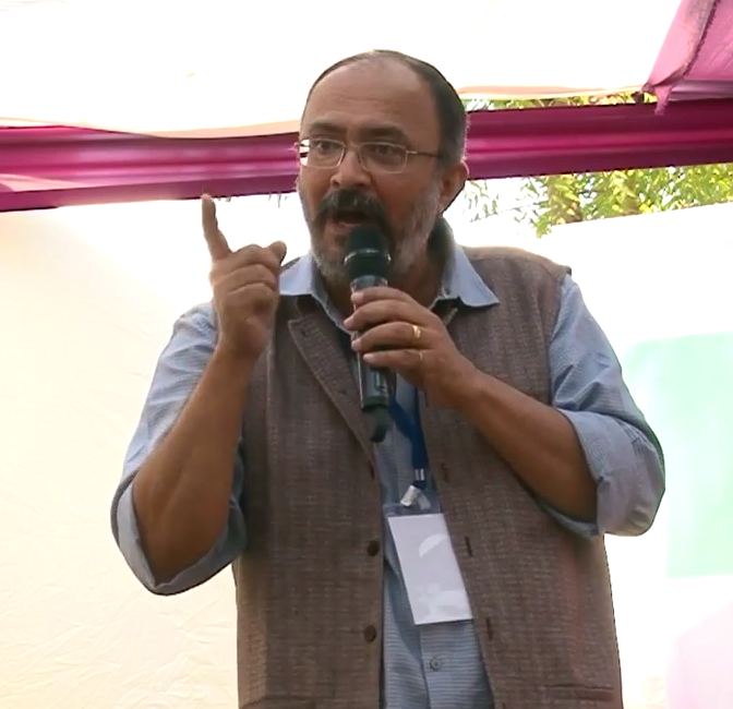 Indian screenwriter Anjum Rajbali at Gujarati Literature Festival (GLF), Ahmedabad on 17 December 2016.